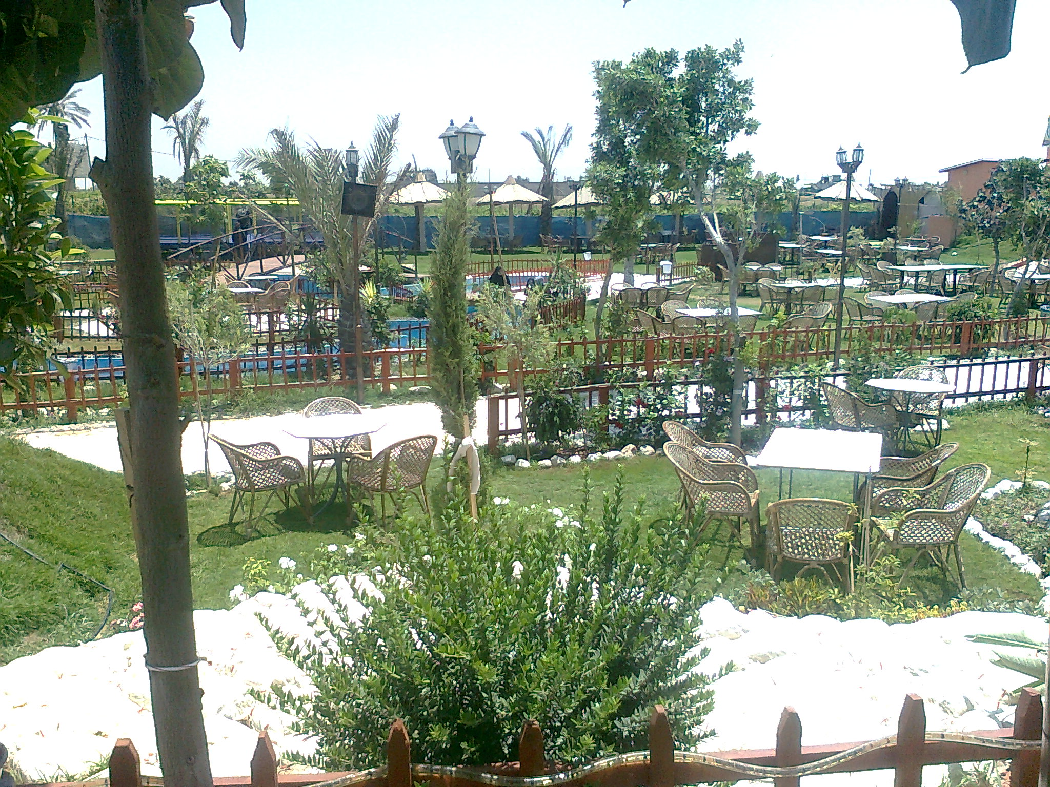 Gaza tourist center built on the ruins of the settlement of Netzarim at a cost of $ 2 million